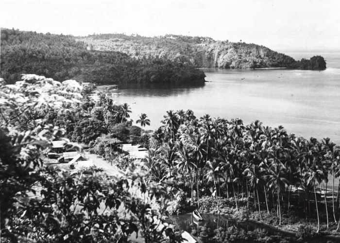 A view over Peta Bay